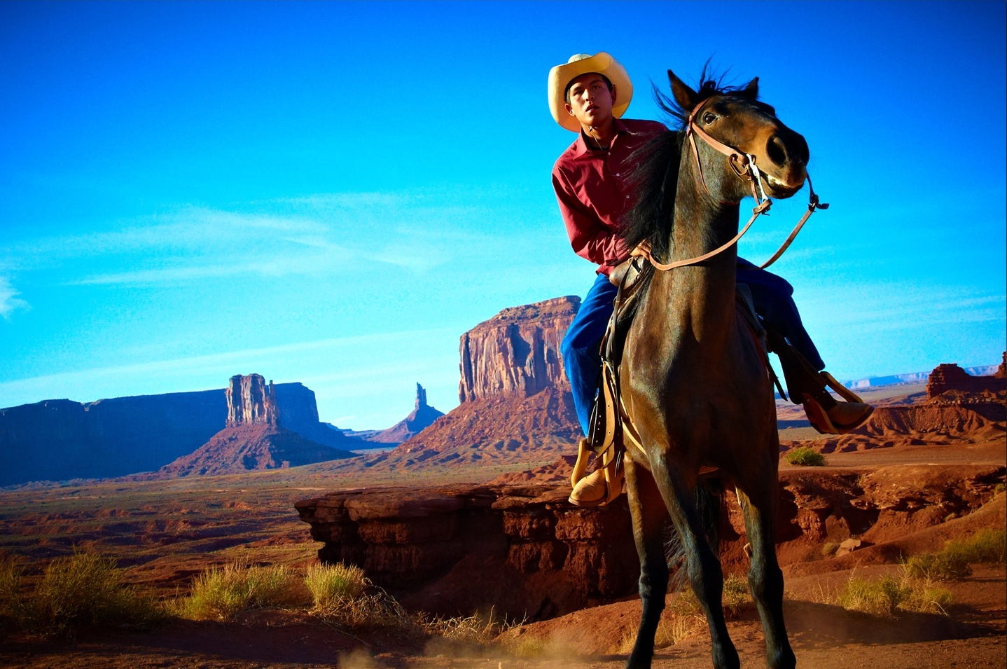 a young man posing and acting on his horse for us in change of a little offer NOTE FOR EDITORIAL/COMMERCIAL USE: In case of editorial/commercial use of this picture, in addition to my permission, a further formal consent from the subject depicted may be eventually needed, for which I may try to provide more info. In this sense, I was allowed by voice to take and eventually use the picture, however a specific written consent is not effectively available. Altenatively, the image could be used by obfuscating or by doing a replacement of the interested image area with different elements or subjects.